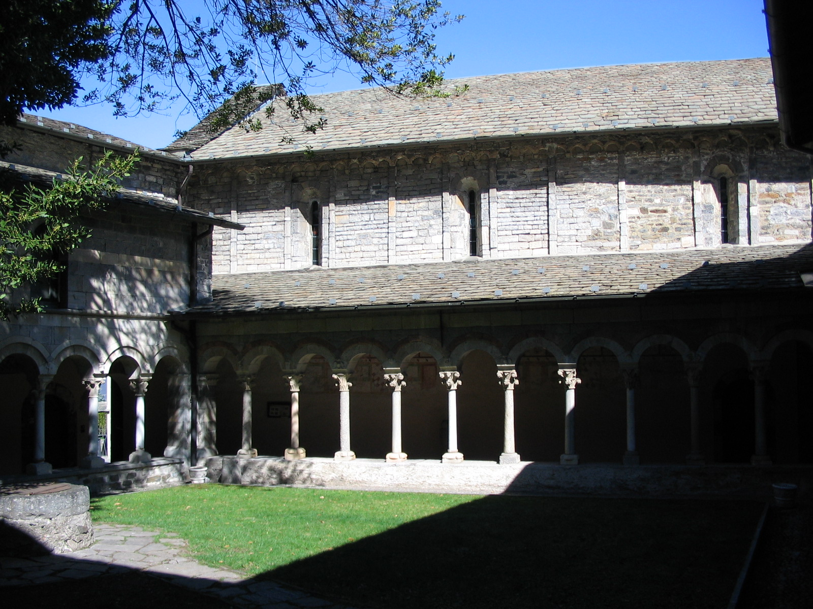 Priorato di Piona: detail of the cloister. Picture by: Giorces.